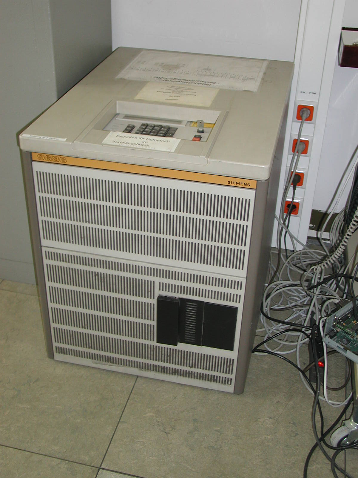 Siemens network access node 9686 used for BS2000 / Transdata